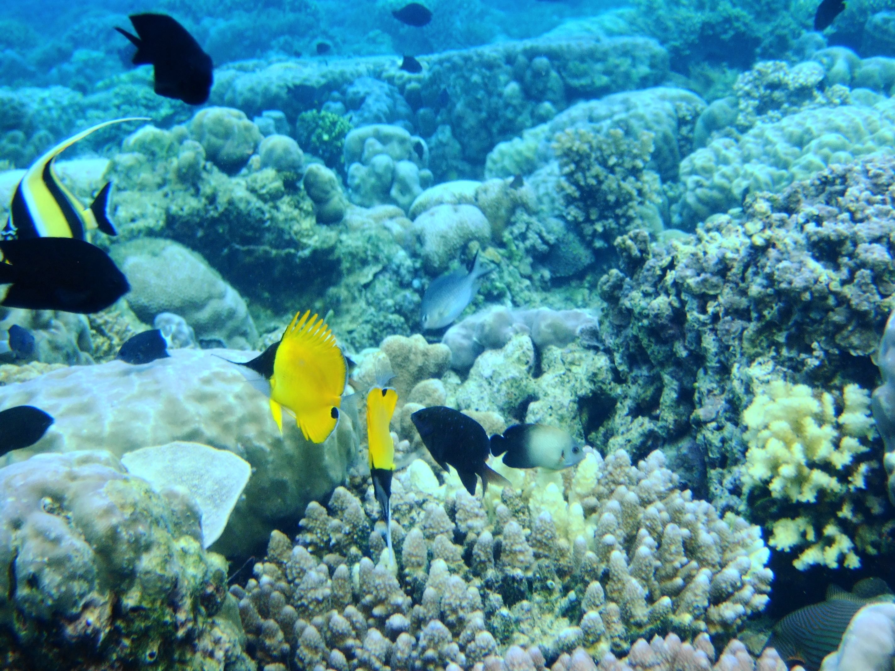 Bunaken National Marine Park, Manado, Indonesia